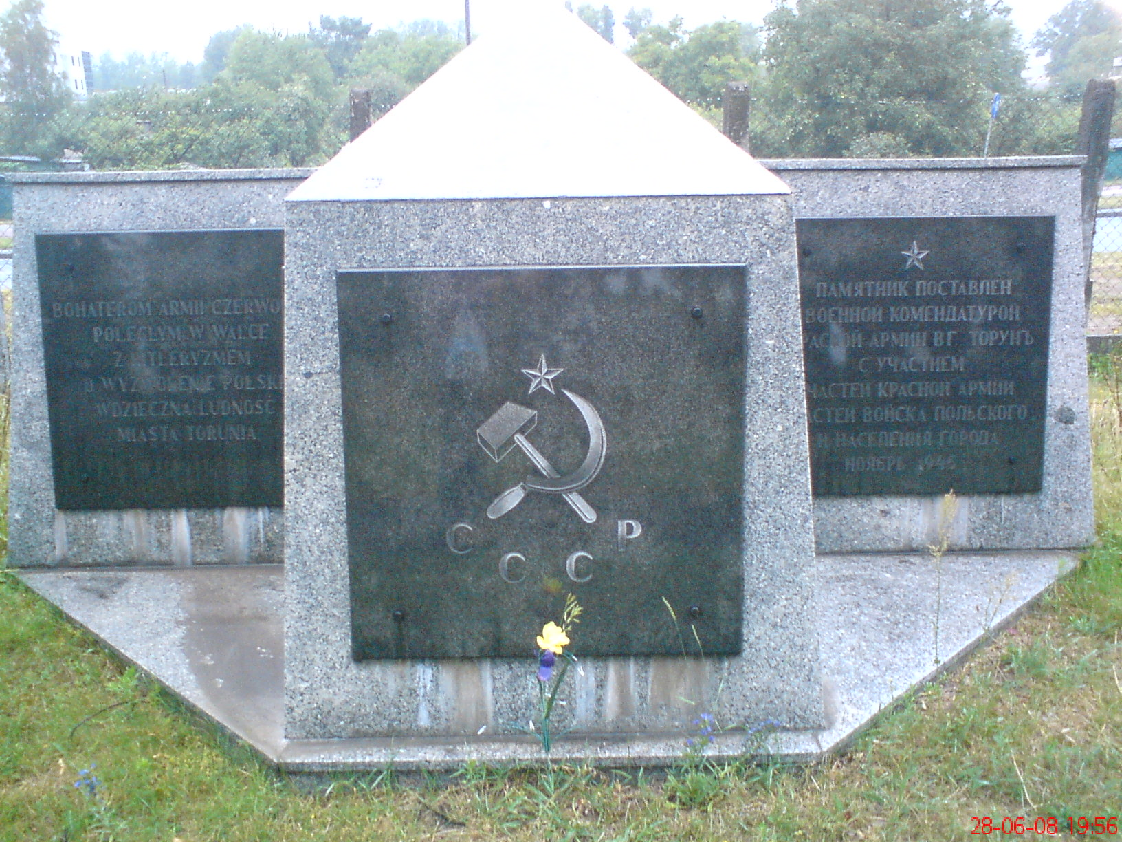 Monument of Red Army that used to stand in city centre of Toruń